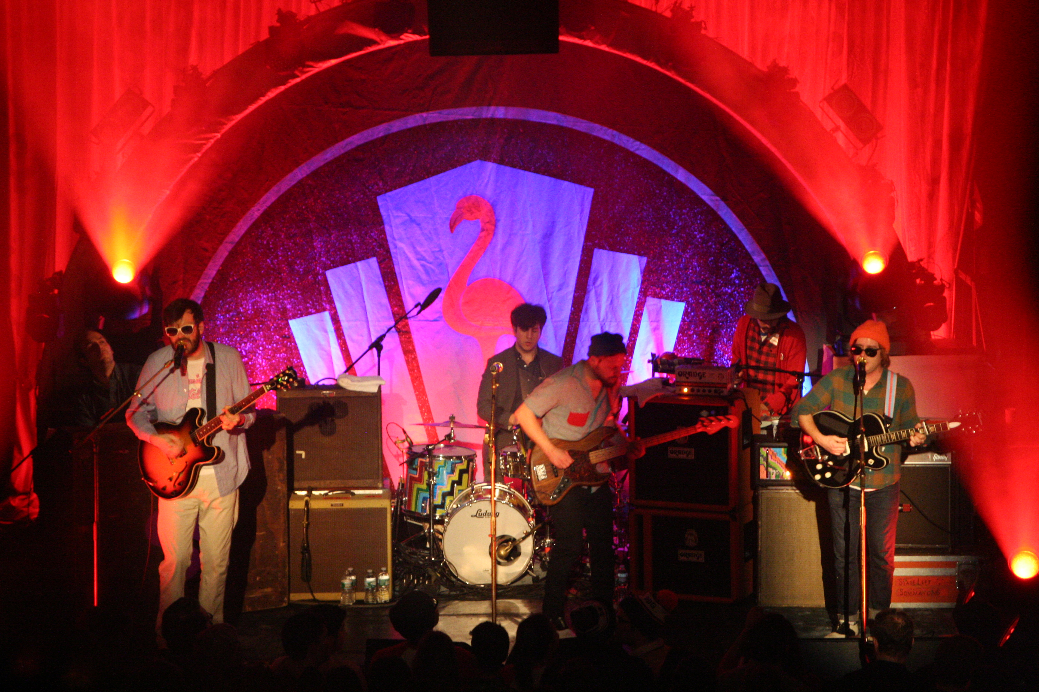 Dr. Dog at the Bowery Ballroom in New York City.